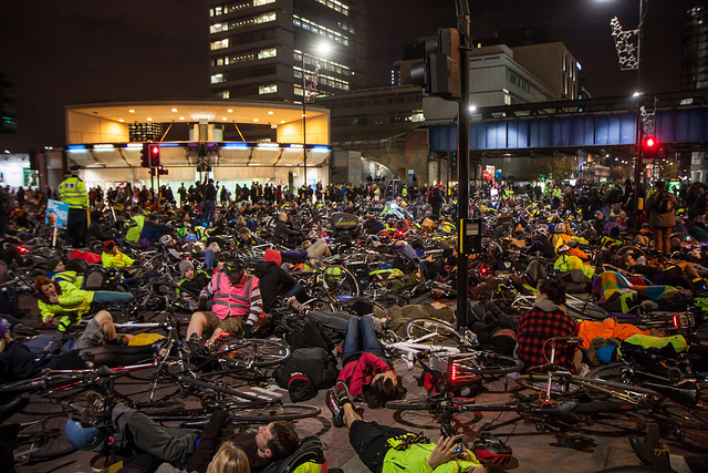 Cyclists holding a die-in protest outside the headquarters of Transport for London in November 2013 to demand road safety improvements for cyclists and pedestrians.